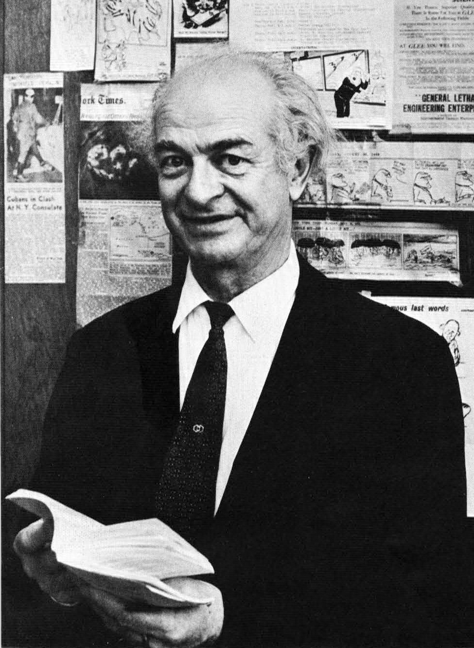 California Institute of Technology Professor Linus Pauling